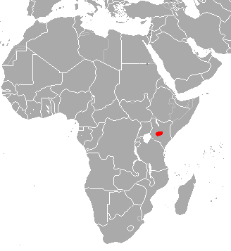 Distribution map of the highland Bongo antelope.